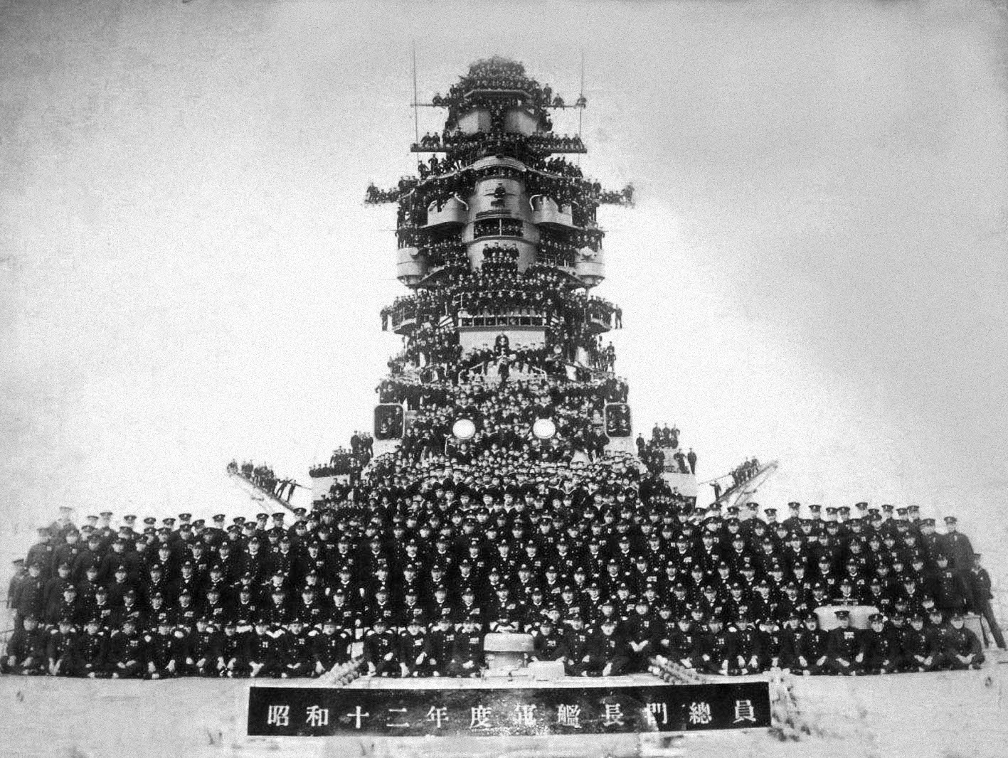 IJN battleship Nagato and her all crewmembers. Taken in 1937.